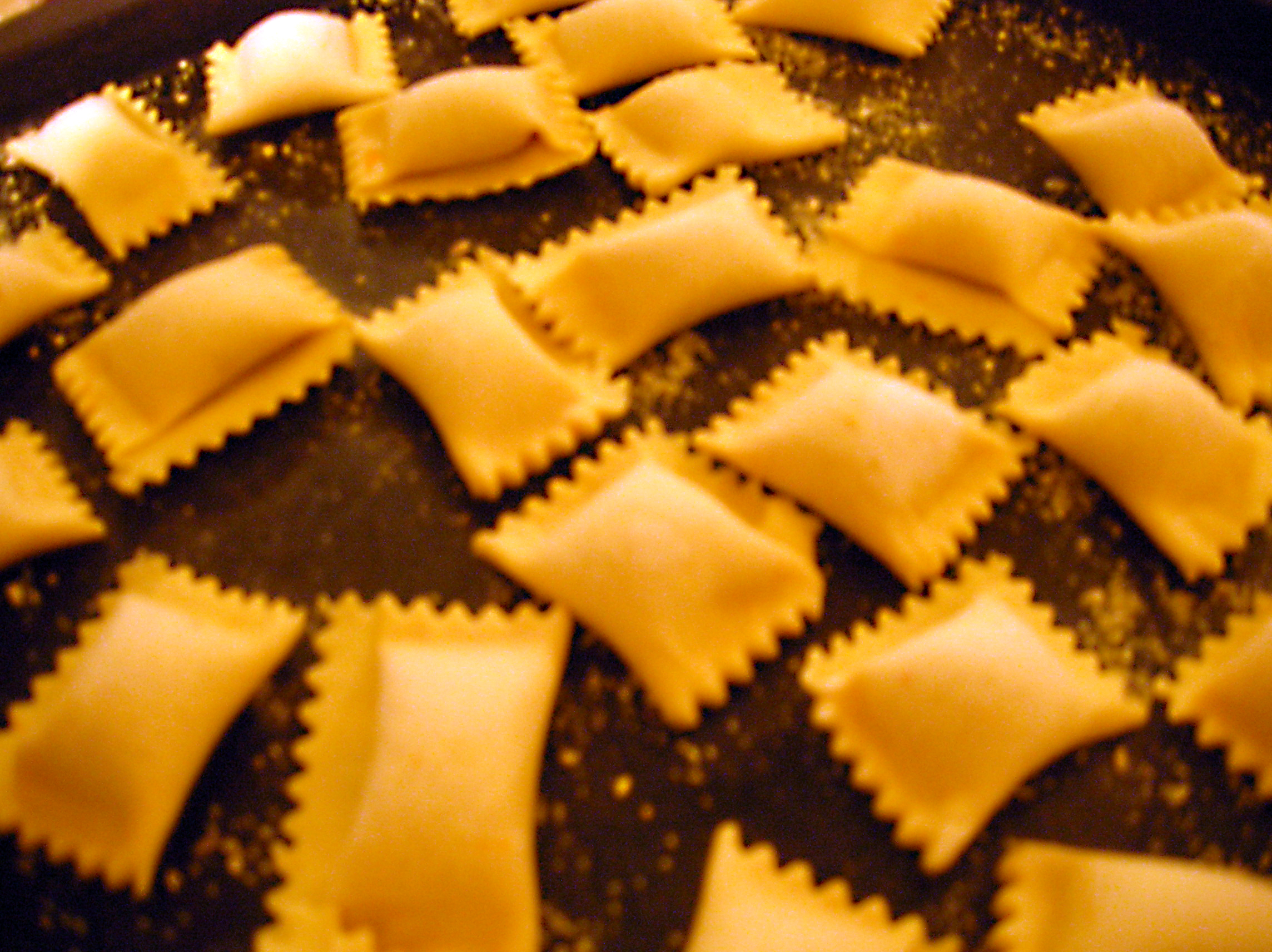 Image of agnolloti on a baking sheet. Made according to the instructions in Thomas Keller's "French Laundry Cookbook."